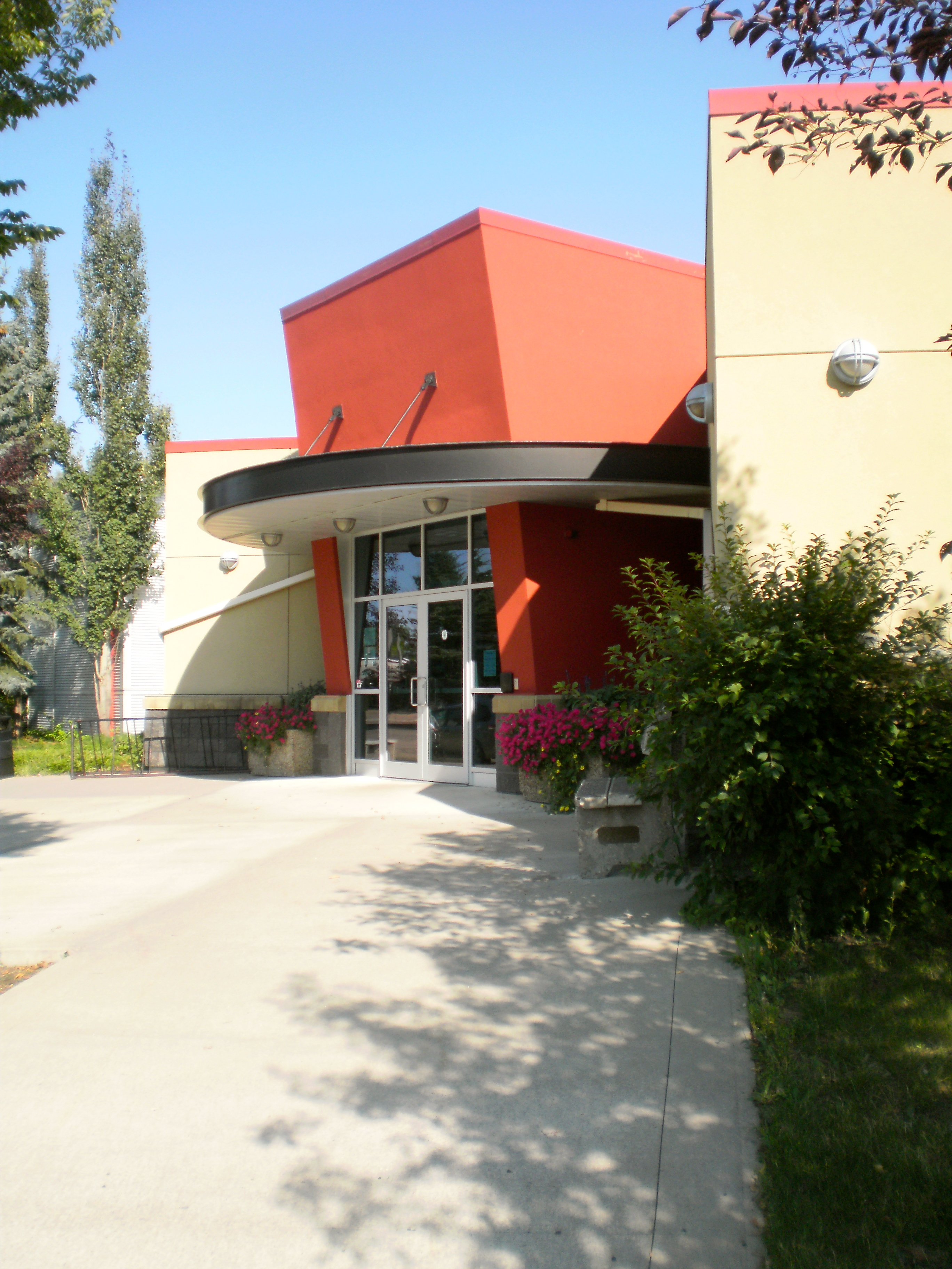 Vegreville Centennial Library